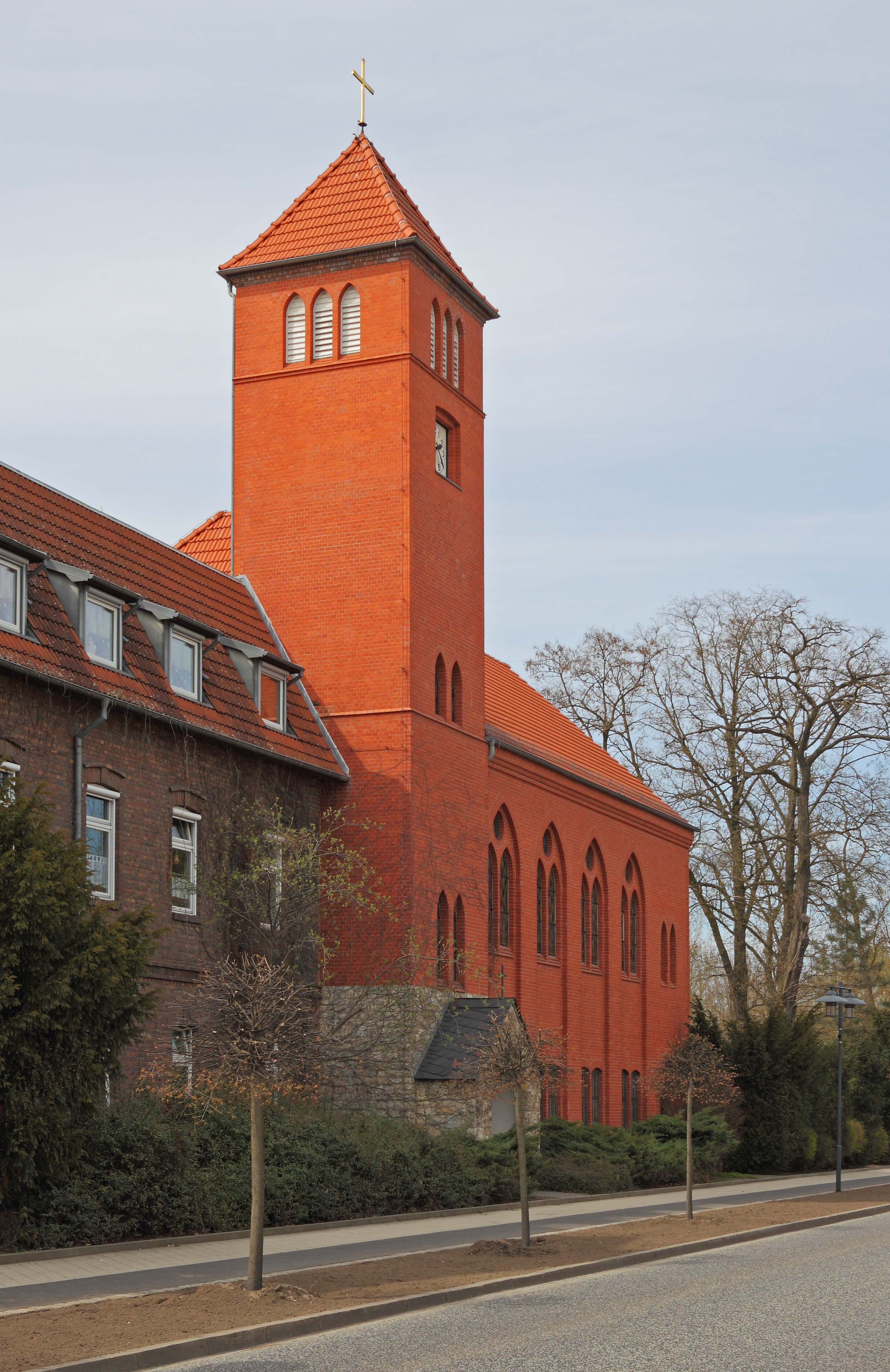 Samaritan Church in Fürstenwalde (Spree), Brandenburg, Germany